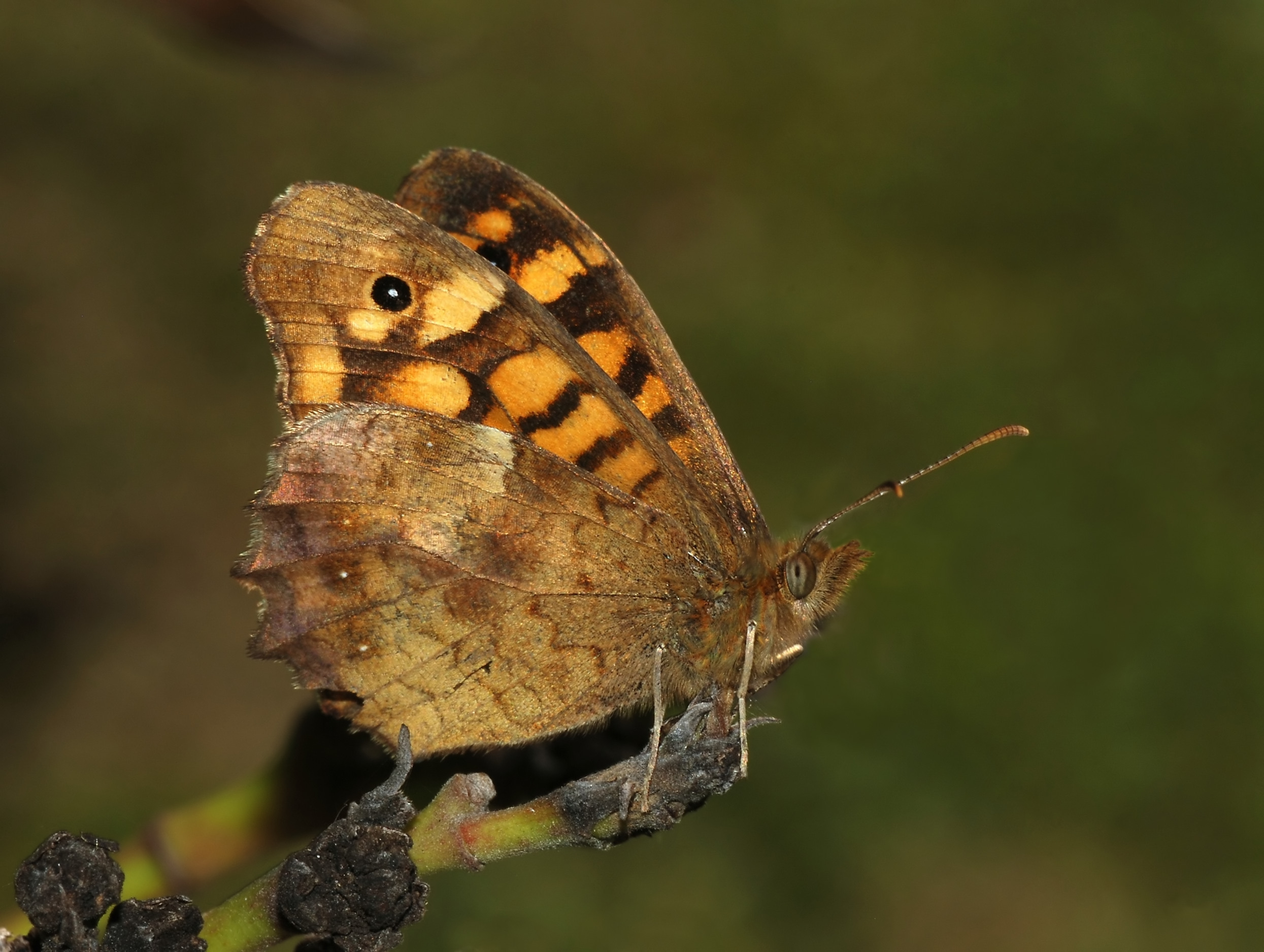 A Pararge aegeria butterfly (Satyridae).